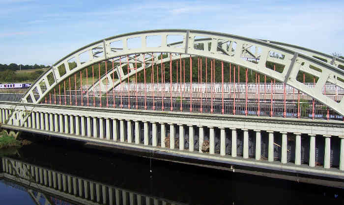 Stanley Ferry Aqueduct in Yorkshire, England on the Aire and Calder Navigation in use since 1839.